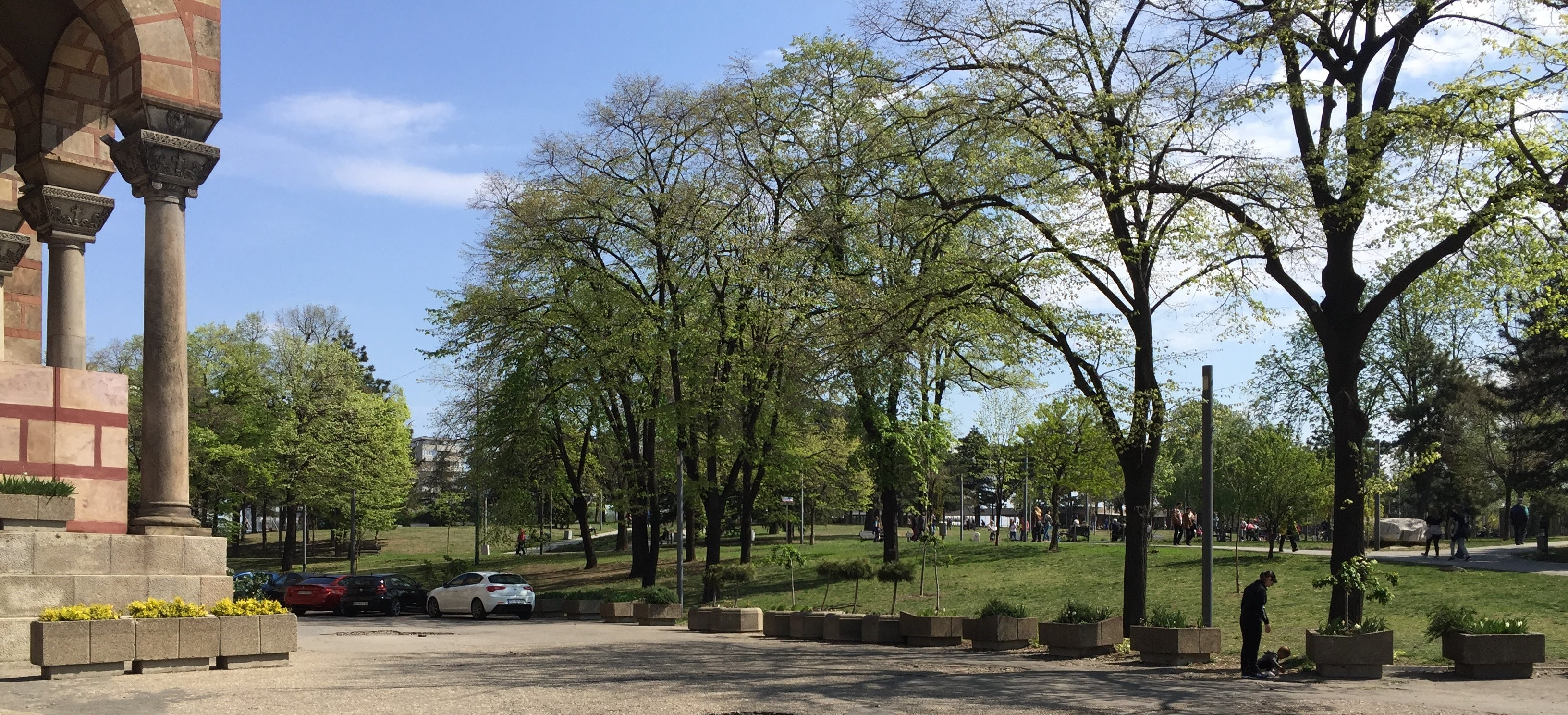 Tasmajdan park with Sv. Marko church in Belgrade